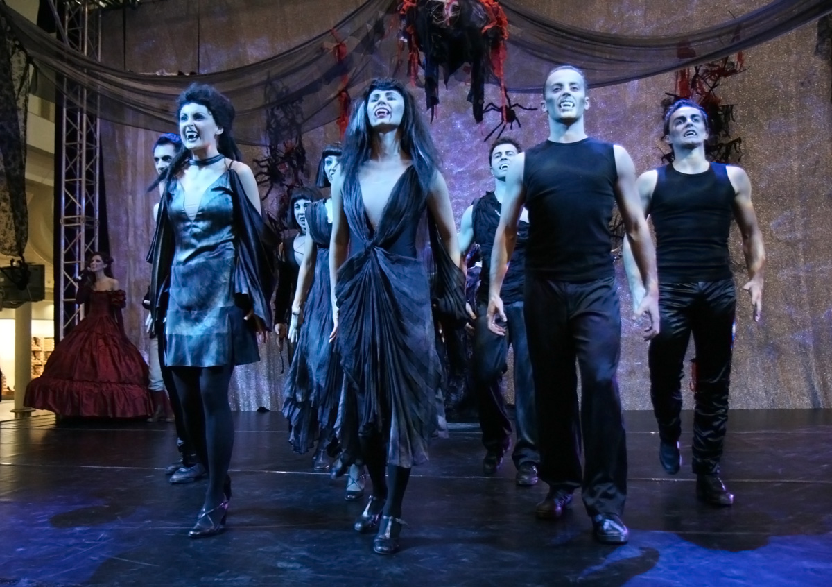 "The Dance of the Vampires" promotional show in CH Reduta in Warsaw - Finale.